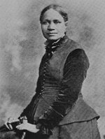 Image of American poet and activist Frances Ellen Watkins Harper.